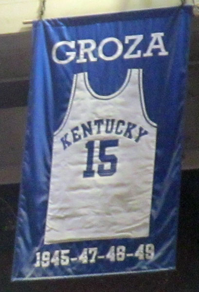 A jersey honoring Alex Groza hanging in Rupp Arena in Lexington, Kentucky